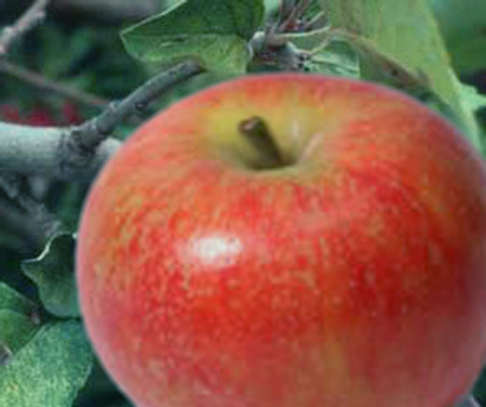 Baldwin apple (U.S.A.) also known as Woodpecker or Pecker apple for attracting birds